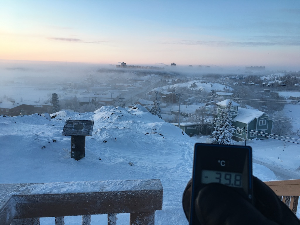 This photo was taken on 13 January 2020 around 10:00am.